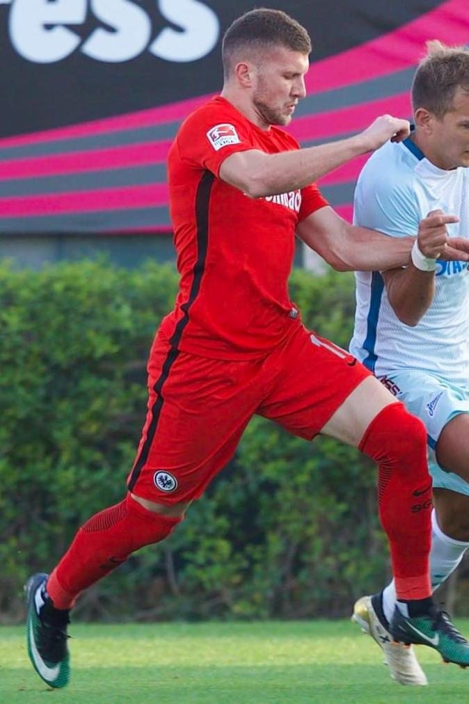 Ante Rebic